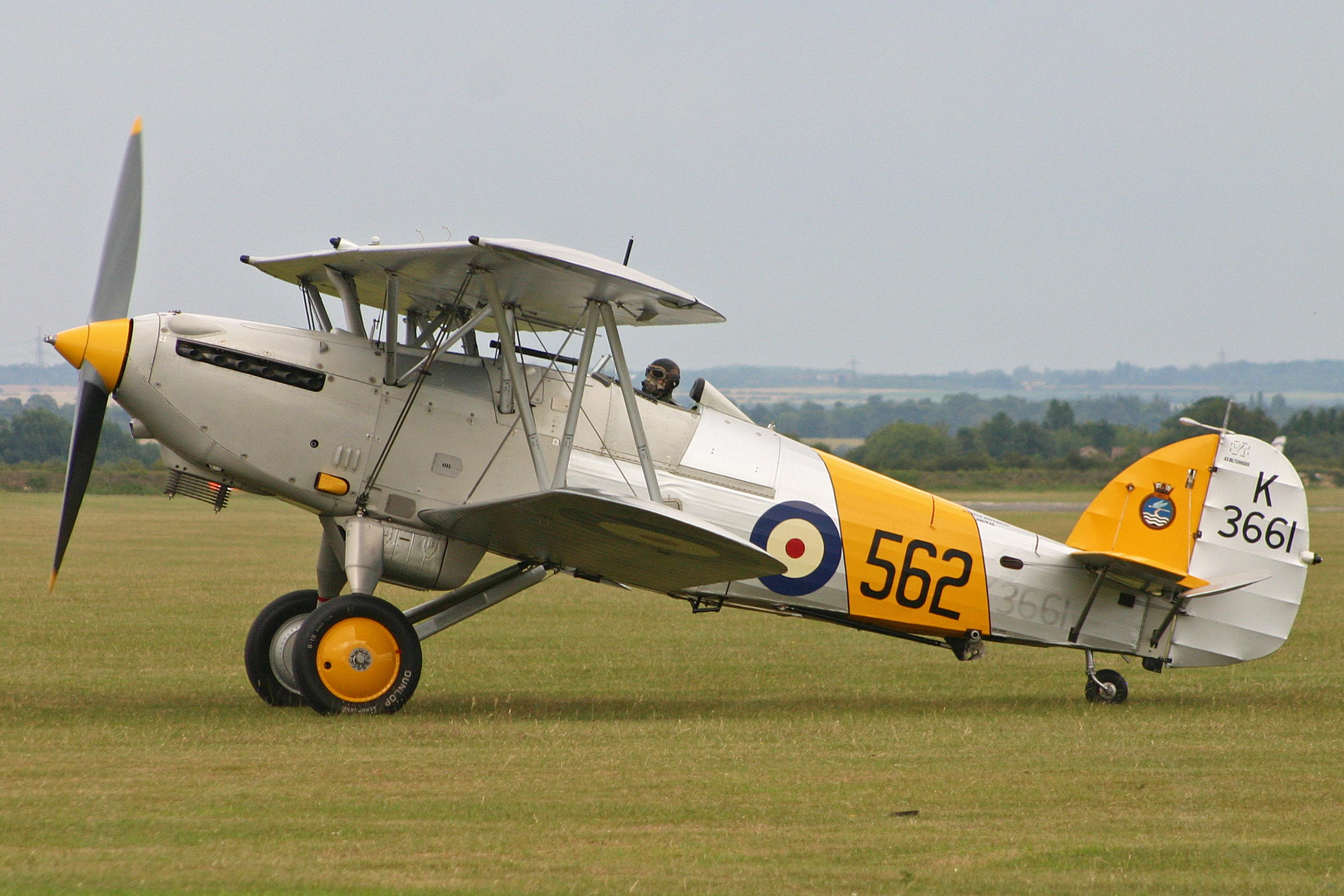 Taxiing in after landing, following a formation display with three other Hawker biplanes, a Nimrod I, a Hind and a Demon! msn 41H-59890. 2011 Flying Legends. Duxford. 10-7-2011